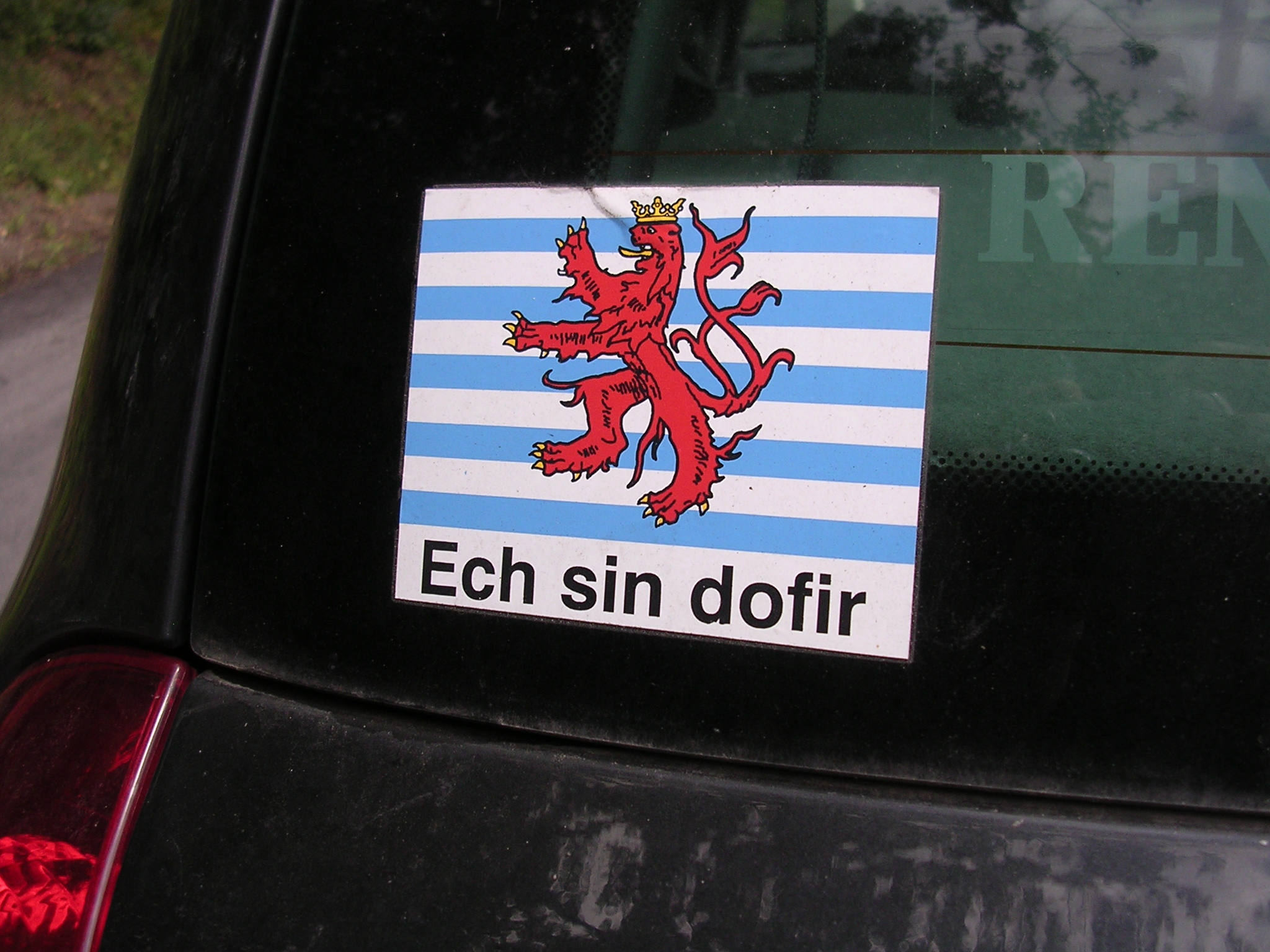 Campaign for the change of the national flag in Luxembourg